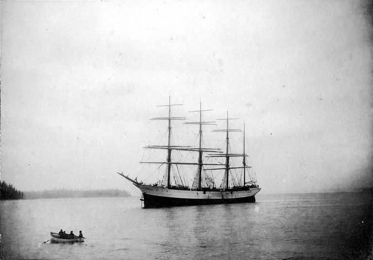 Handwritten on verso: Peter Iredale 4 m. ship